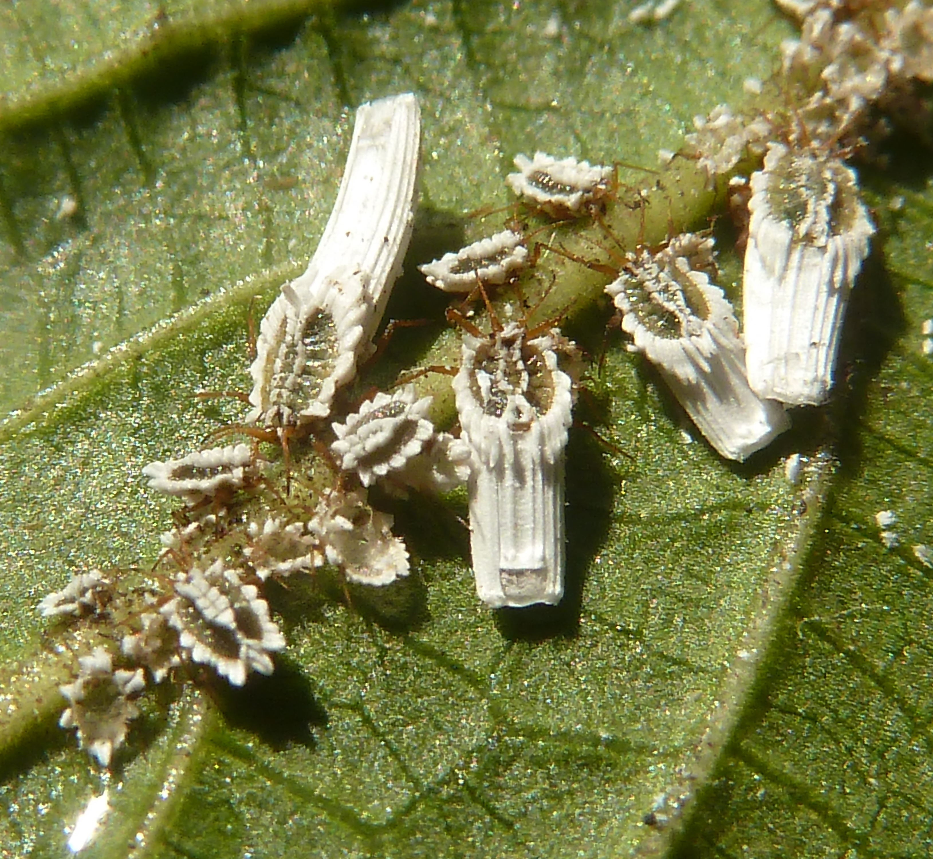 Croton bugs on Blue Sage in the Manie van der Schijff Botanical Garden, Pretoria